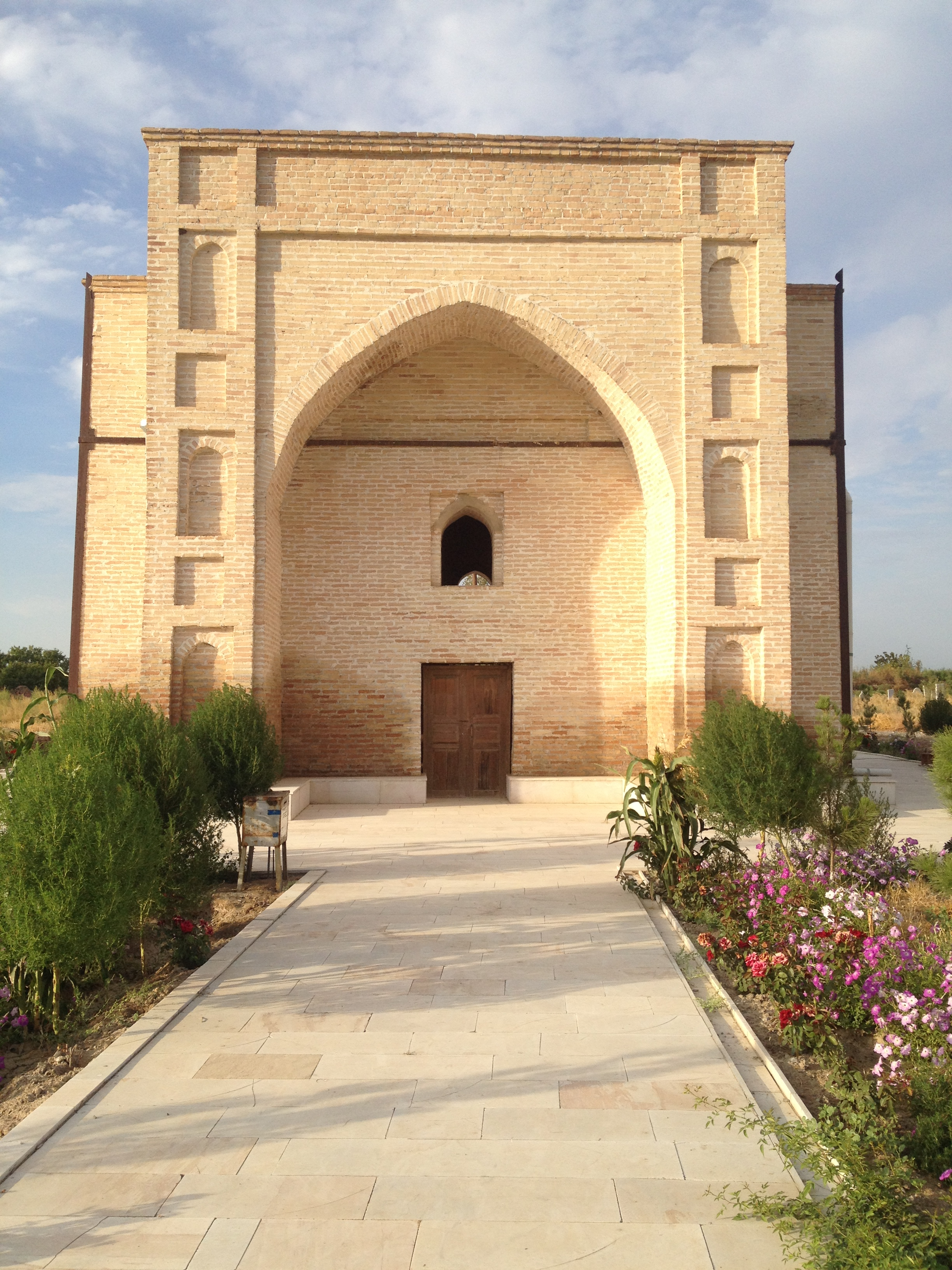 Kyzyl Mazar mausoleum (near Bekabad town)